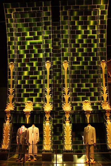 See title